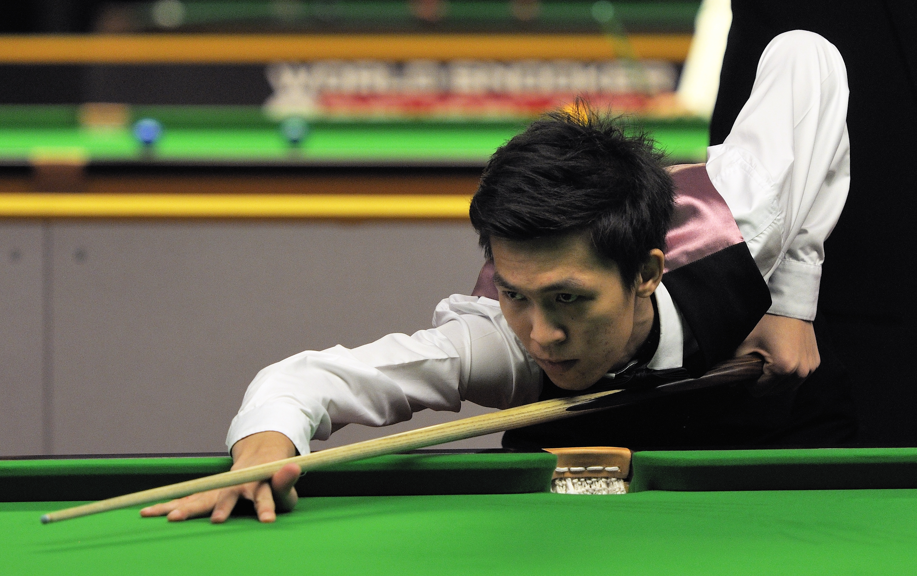 Picture taken in Berlin during the Snooker German Masters in 2014. Thepchaiya Un-Nooh.